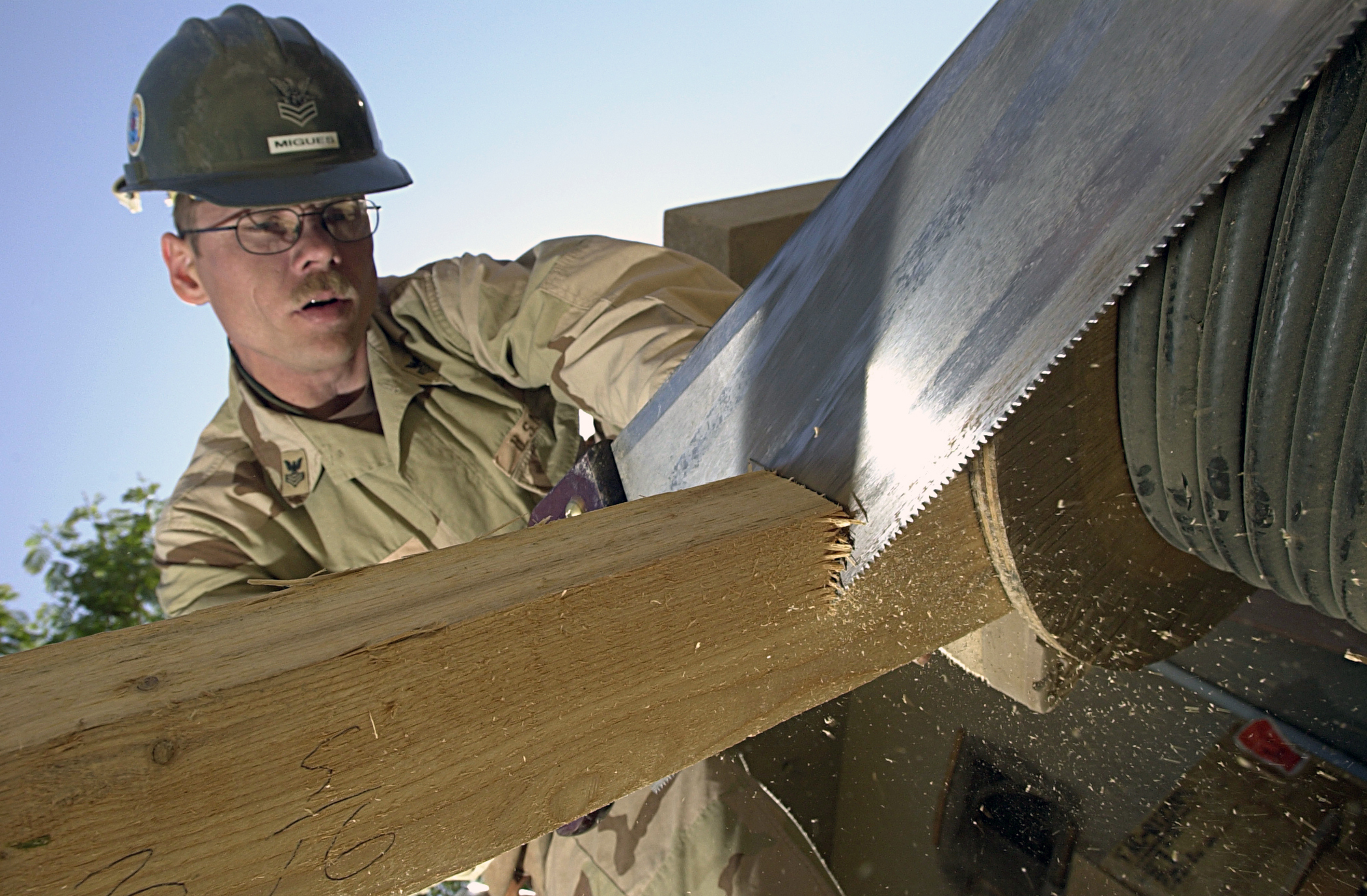 Iraq (Mar. 20, 2004)- Builder 1st Class Joseph Migues works to reconstruct a new base-camp for Naval Mobile Construction Battalion Seventy Four (NMCB-74). NMCB-74 is currently deployed in Iraq to support the First Marine Expeditionary Force (1st MEF) Engineer Group, and Operation Iraqi Freedom (OIF). U.S. Navy photo by Photographer's Mate 2nd Class Eric Powell. (RELEASED)